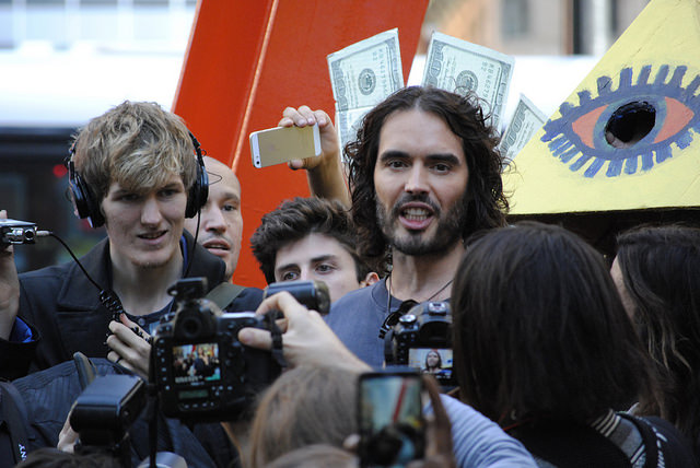 Brand at Zuccatti Park in 2014